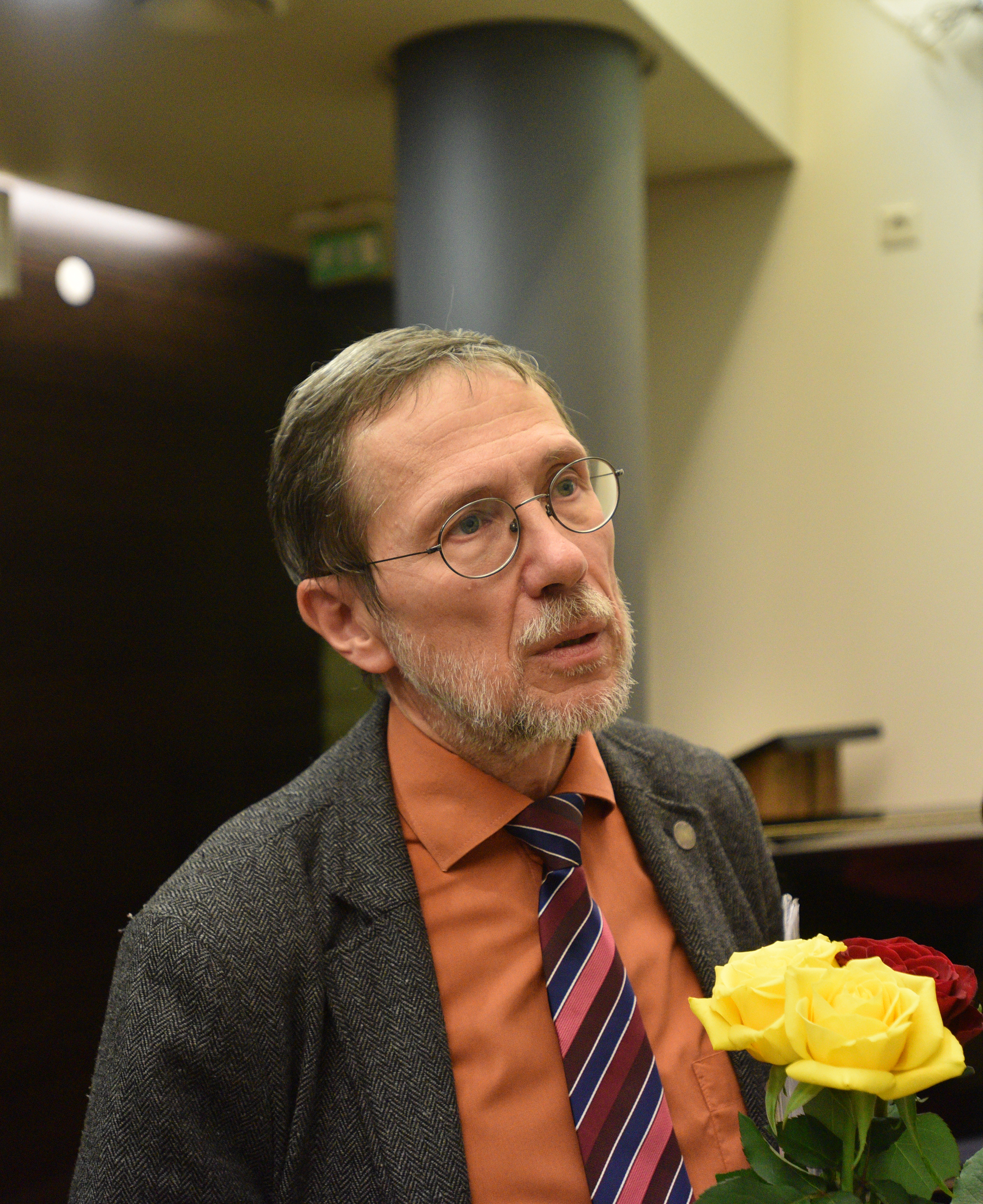 Prof. Liudas Mažylis in Klaipėda 2017-10-26